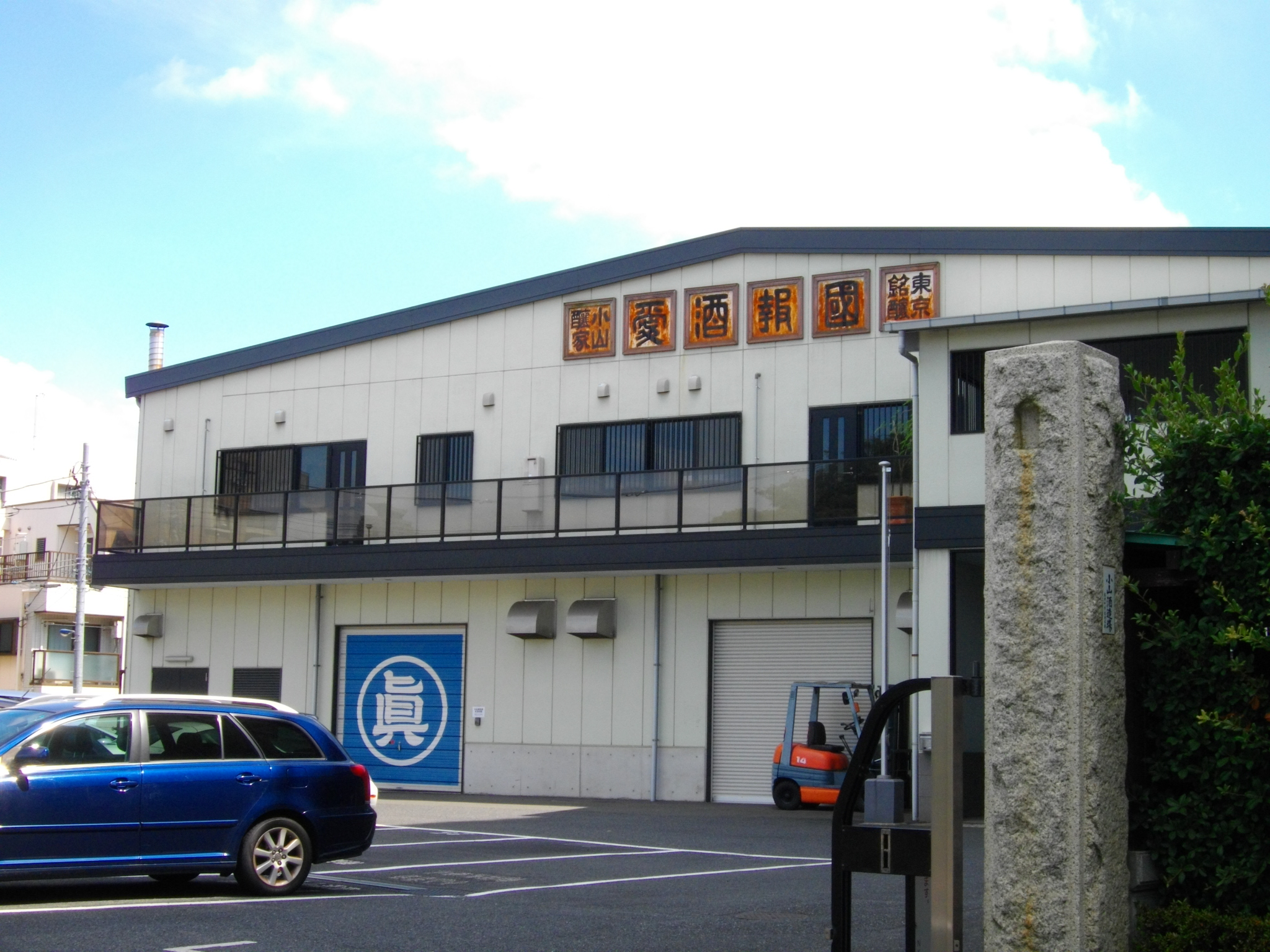 Koyama Brewery